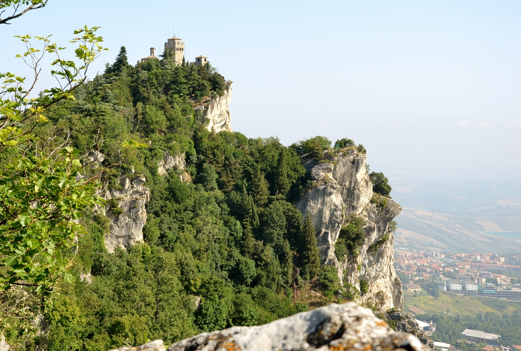 San Marino's middle towner with a museum of arms